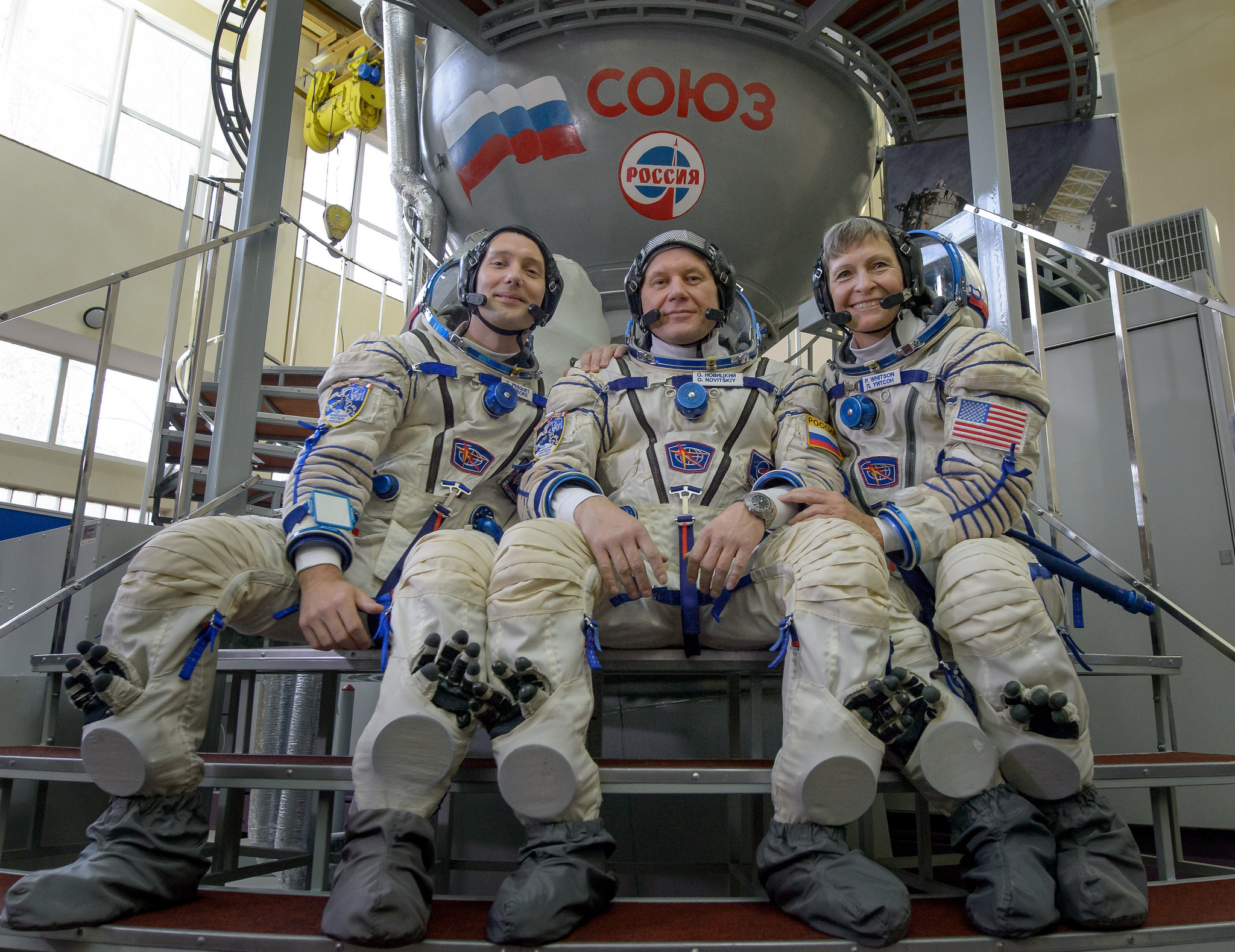 Astronauts Thomas Pesquet of ESA (European Space Agency), Oleg Novitskiy of the Russian space agency Roscosmos, and Peggy Whitson of NASA pose for a group photo ahead of their final qualification exams, Tuesday, Oct. 25, 2016, at the Gagarin Cosmonaut Training Center in Star City, Russia.